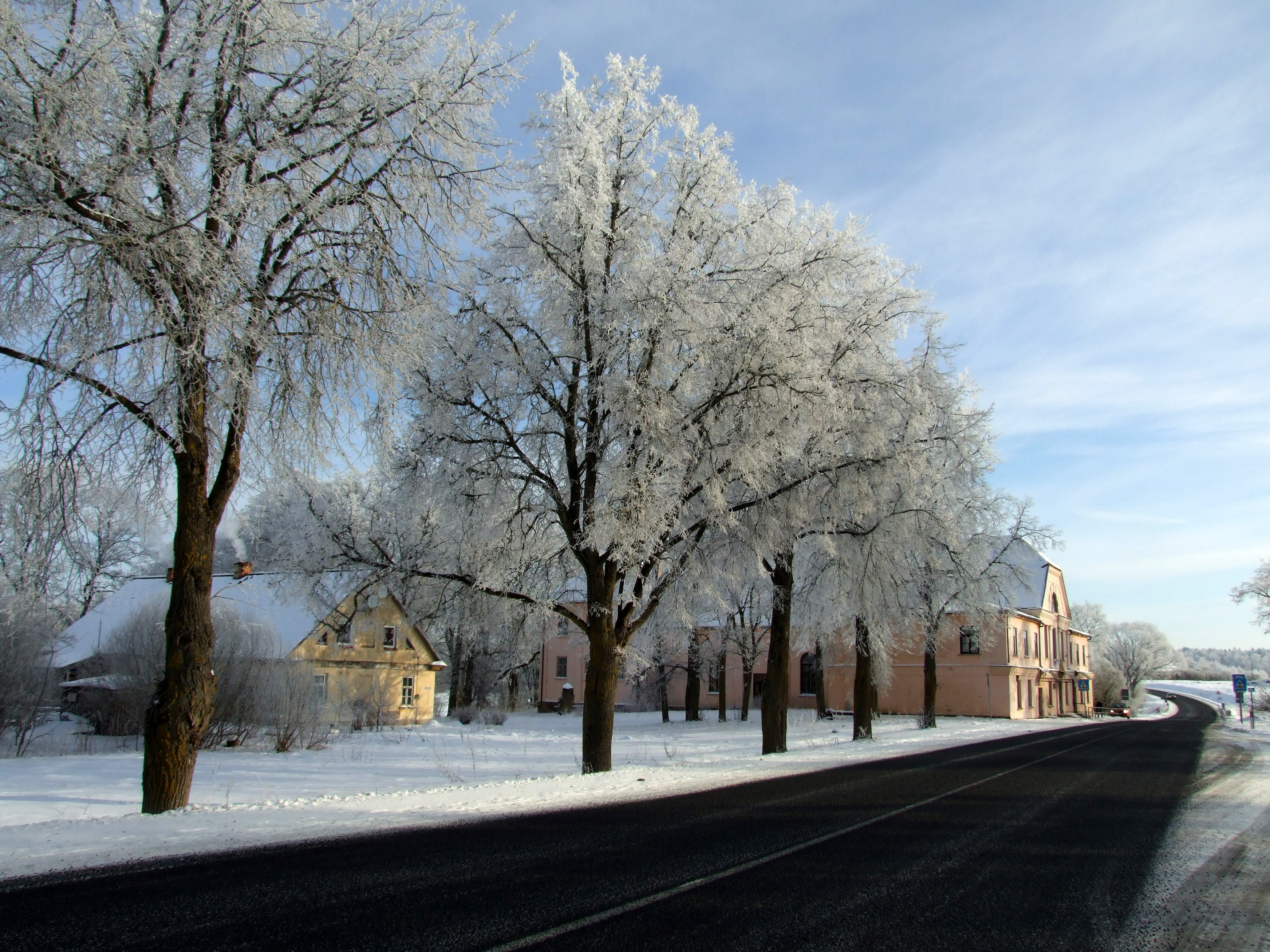 Annenieki village, Road P97Latviešu: Autoceļš P97 Anneniekos